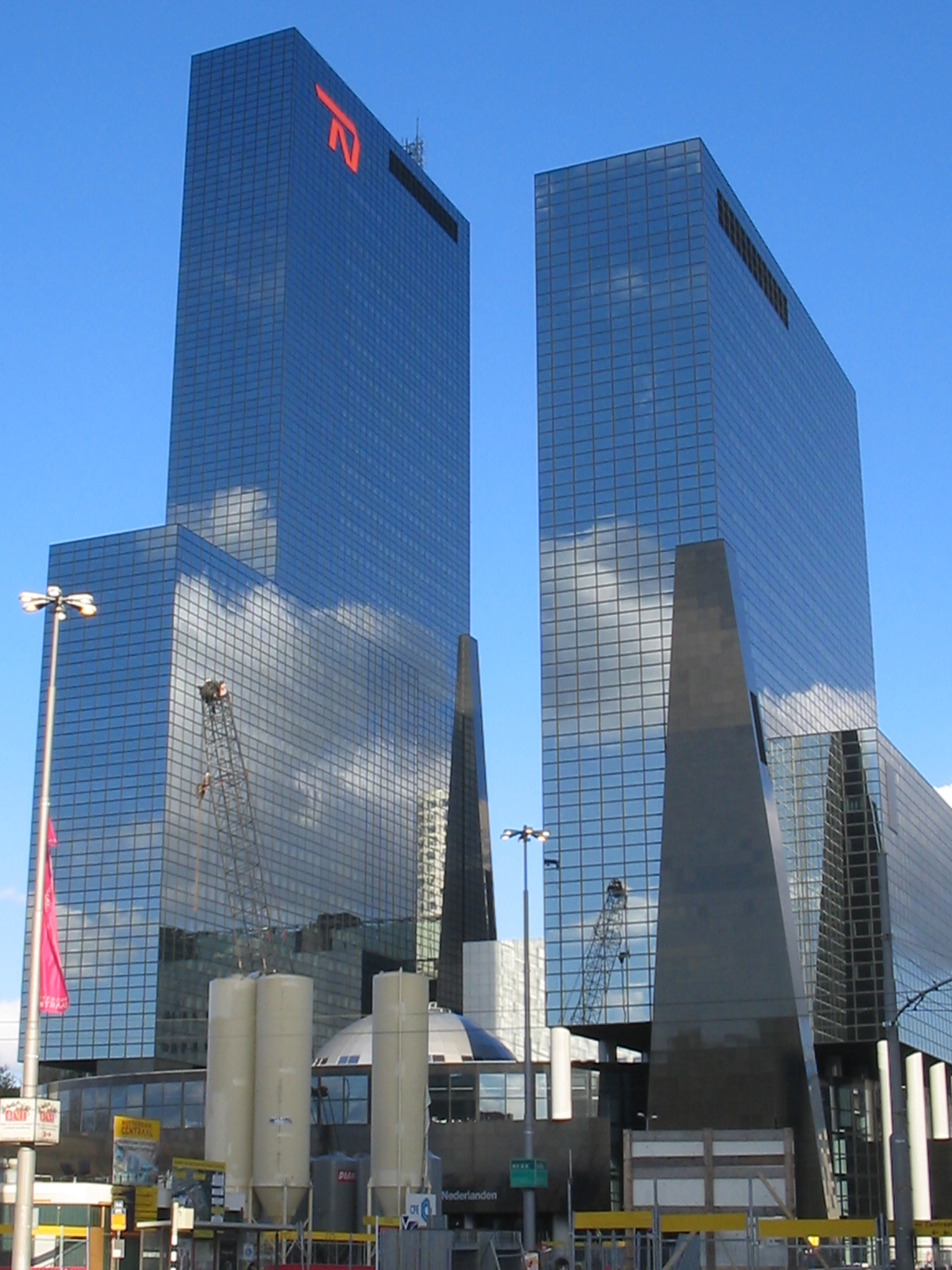 One of the highest buildings in Rotterdam, Nationale Nederlanden, 13 november 2005